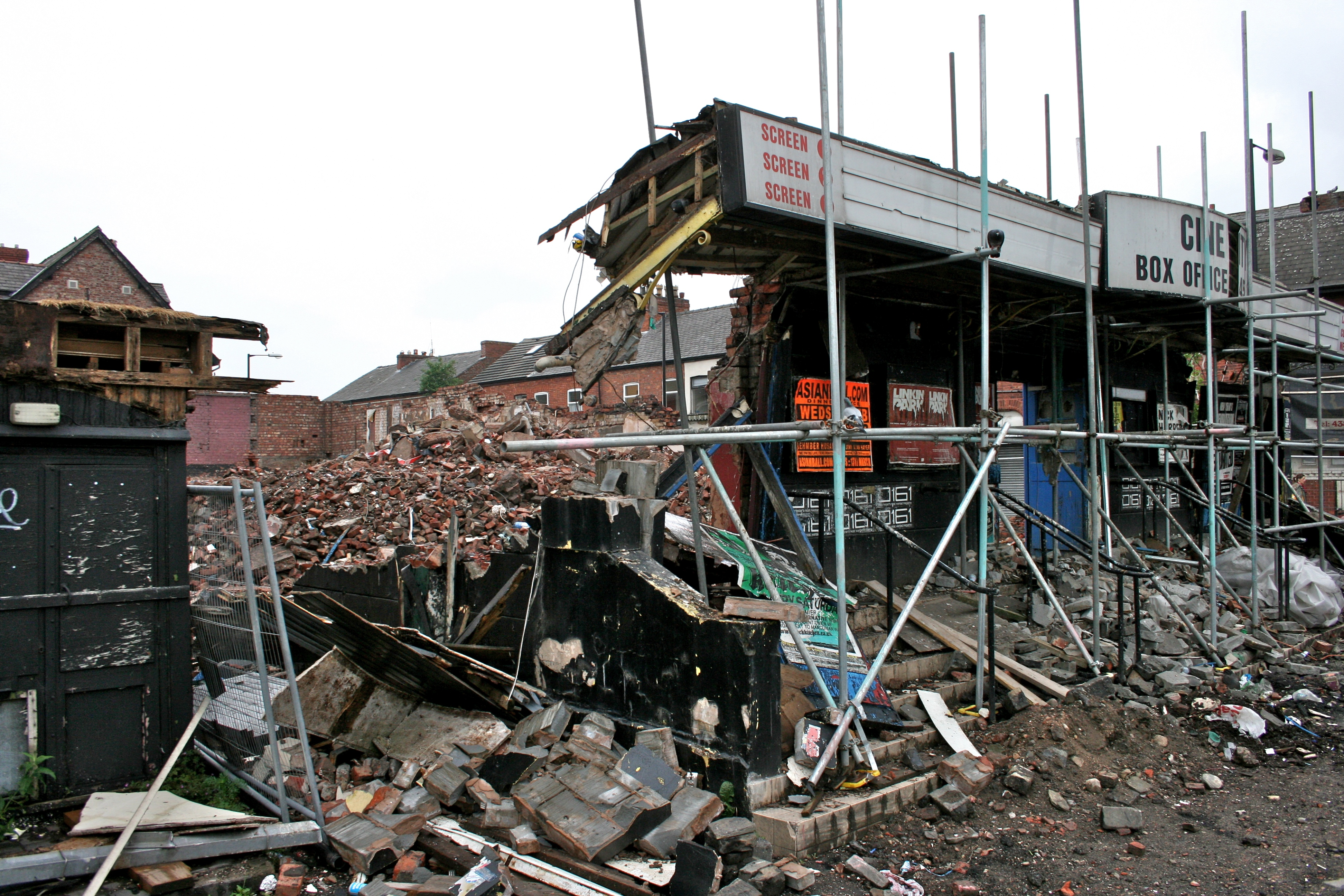 Cine City, Withington, Manchester, England, during demolition.